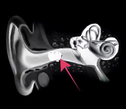 Earpiece micro (earphone) in the ear canal